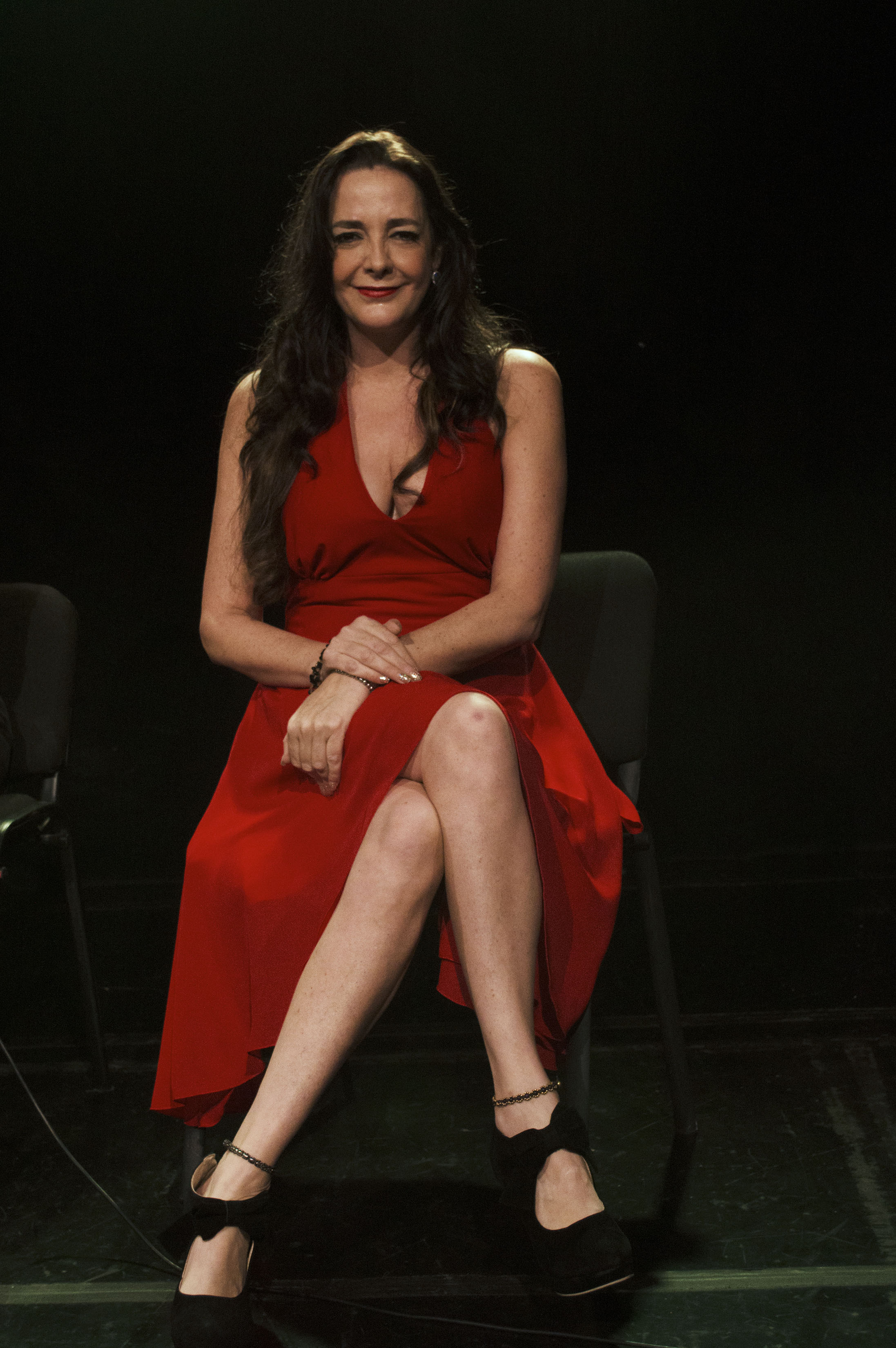 Martes 19 de julio de 2016. En el Foro A Poco No se dio una conferencia de prensa compartida para anunciar las obras de teatro El Río que Quería Volar y Al Cabo que ni quería, con la actriz María Fernanda García. Fotografía: Vania Basulto/ Secretaria de Cultura CDMX